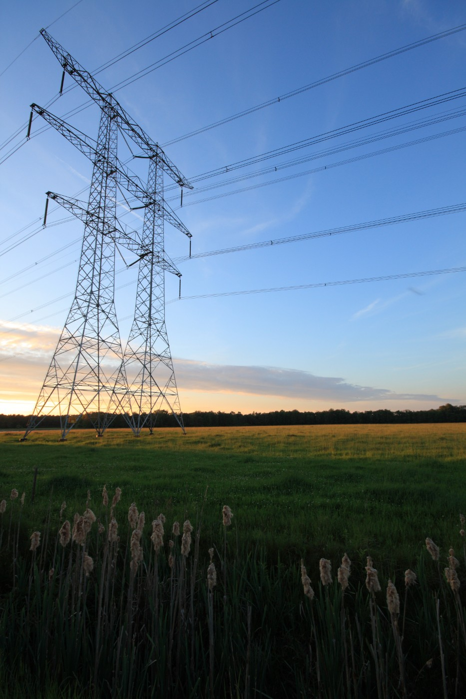 Three-circuit 380 kV double pylon (twin or portal pylon, sort of H-frame) of the Geertruidenberg–Eindhoven power line; west of Vloeiveldweg, Tilburg, Netherlands